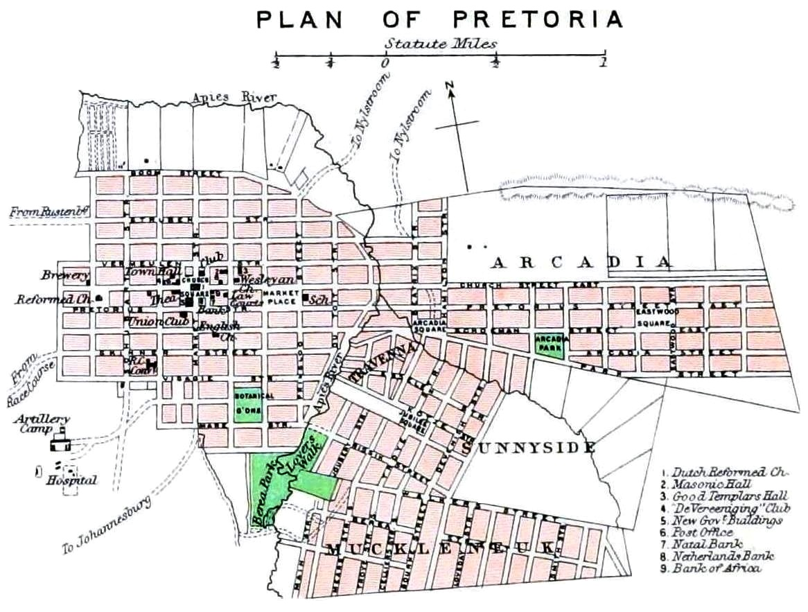 Title: The Castle Line atlas of South Africa : a series of 16 plates, printed in colour, containing 30 maps and diagrams, with an account of the geograaphical features , the climate, the mineral and other resources, and the history of South Africa. And an index of over 6,000 names Year: 1895 (1890s) Authors: Subjects: Publisher: London : D. Currie Text Appearing Before Image: ' Text Appearing After Image: '